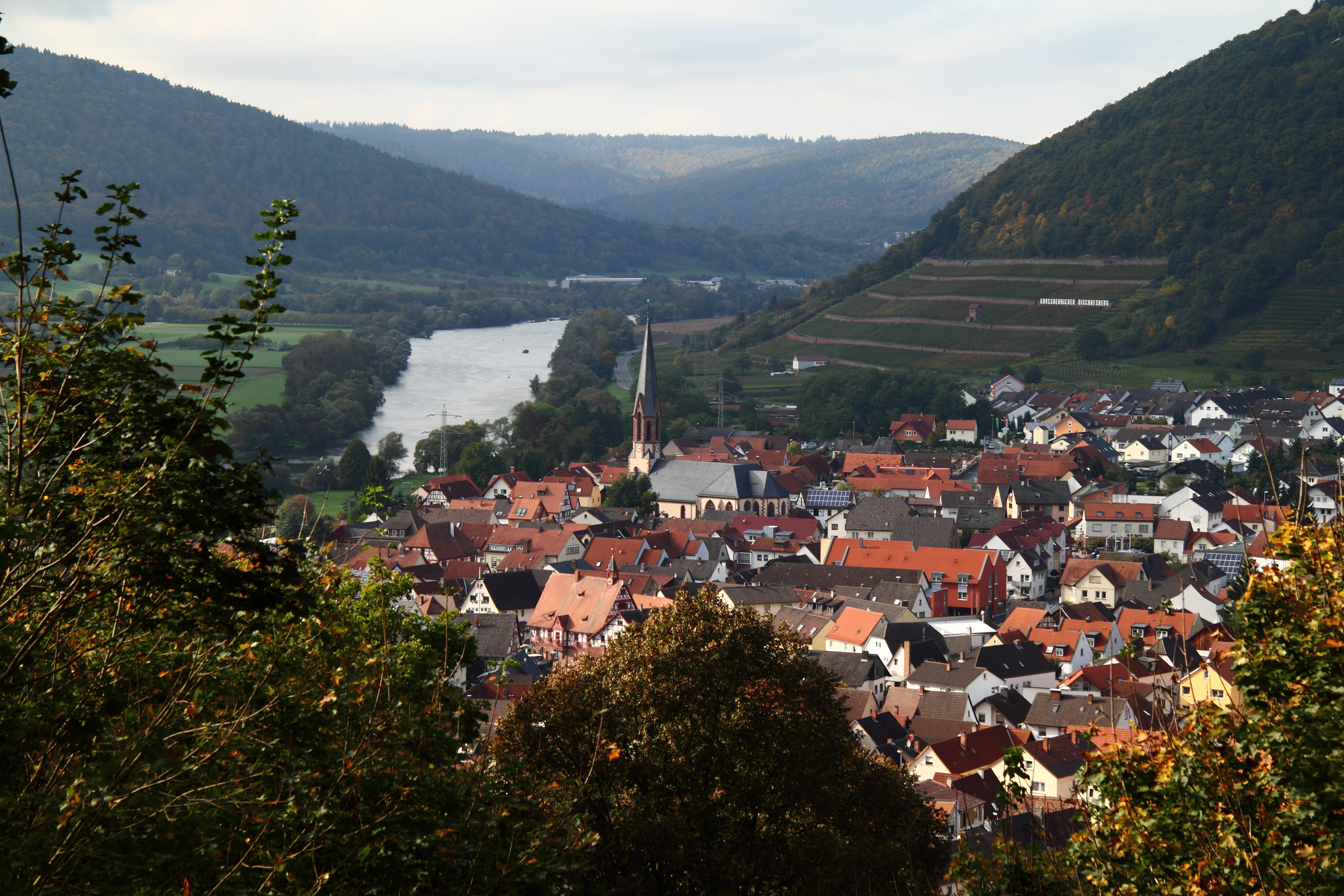 Großheubach, Bavaria/Germany, view from Engelberg hill